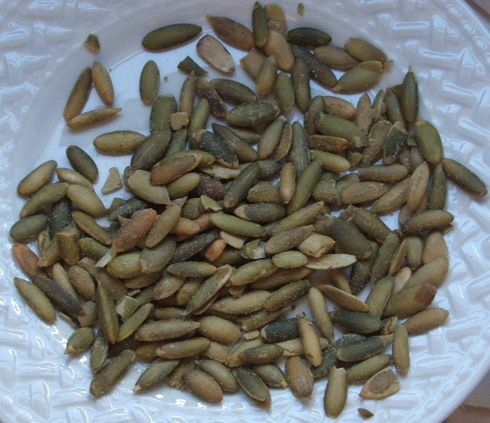 Pepitas - roasted and salted